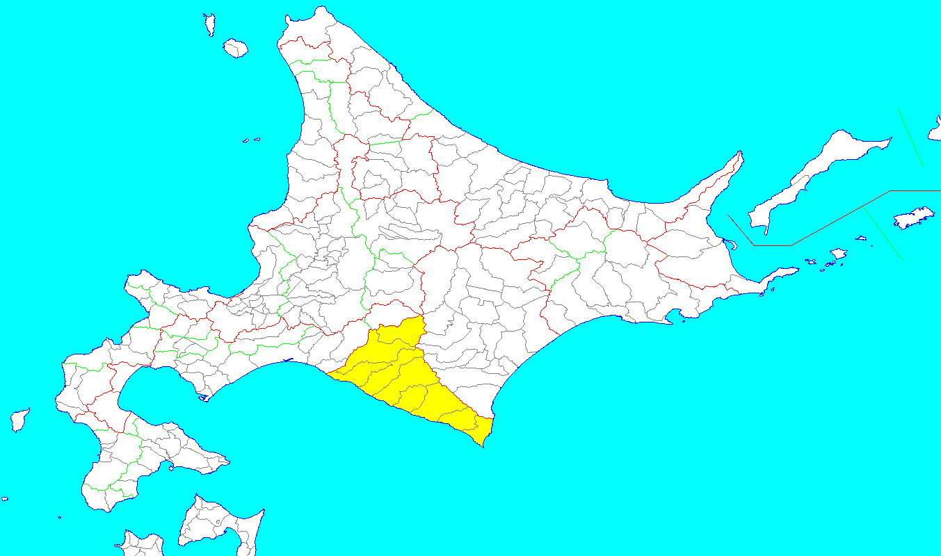 area of Hidaka provinces of Hokkaidō in Japan(1869/08/15)